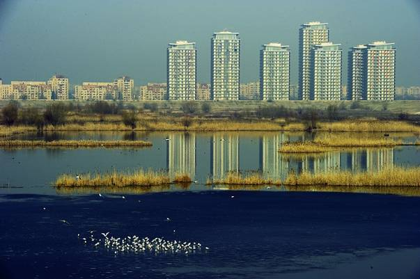 Lake Vacaresti